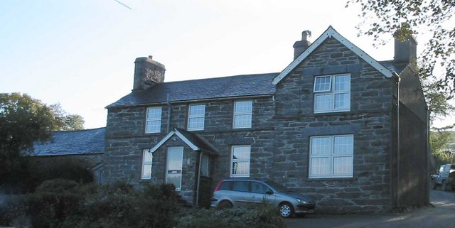 Tyddyn Gethin Dawn Tyddyn Gethin at Dawn.